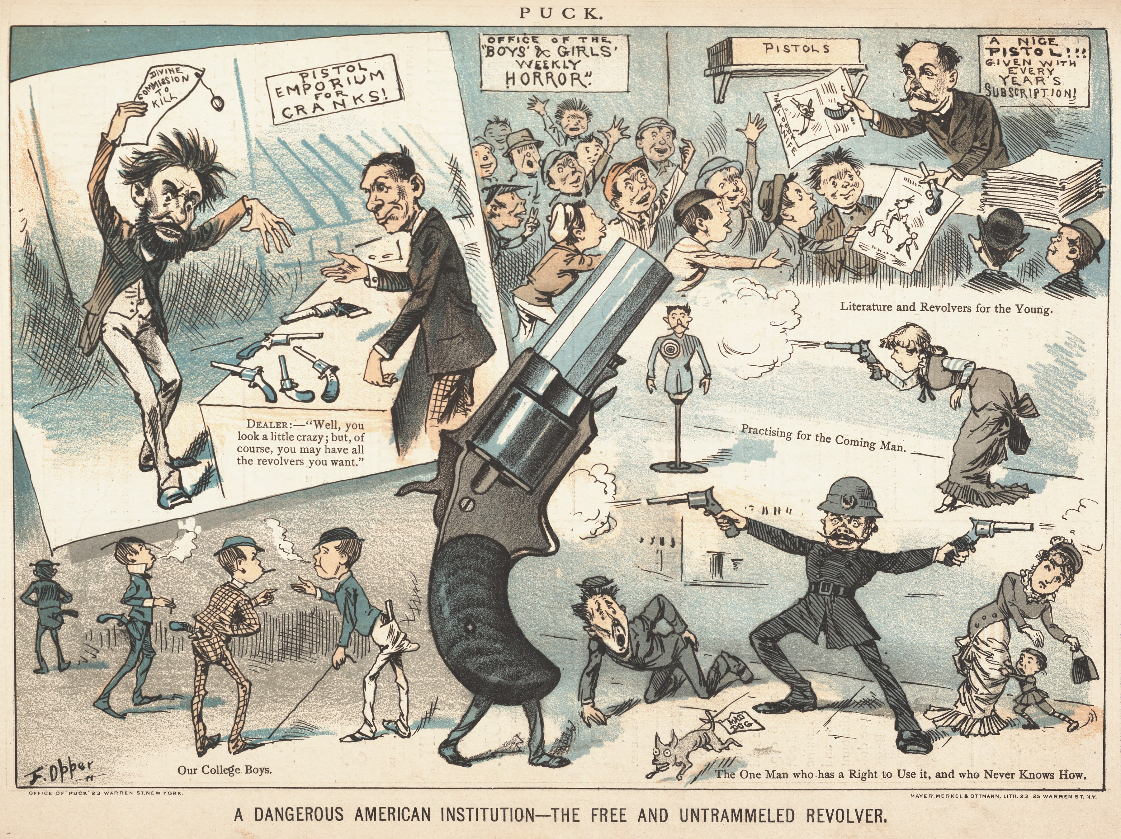 Cartoon about gun culture and gun rights in the USA circa 1881